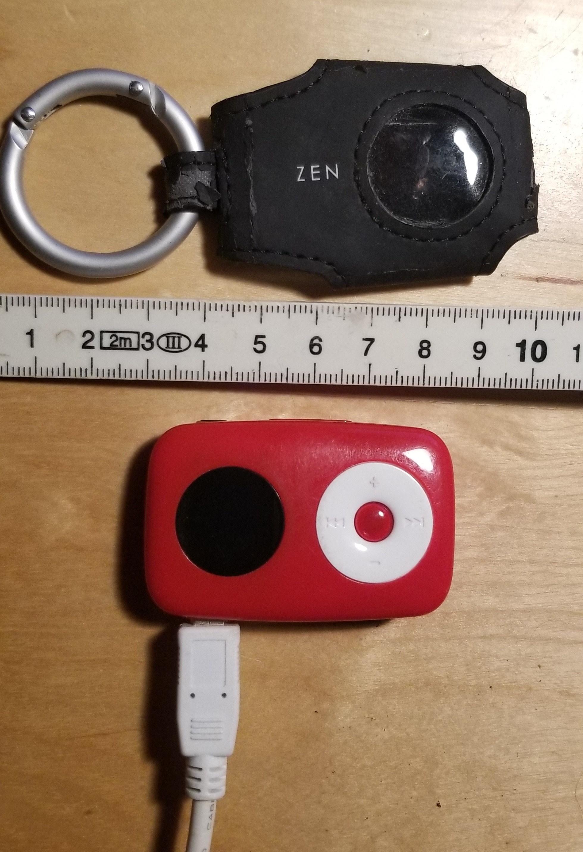 Photo of Creative Zen MP3 player, Stone Plus model, with travel case and ruler for scale